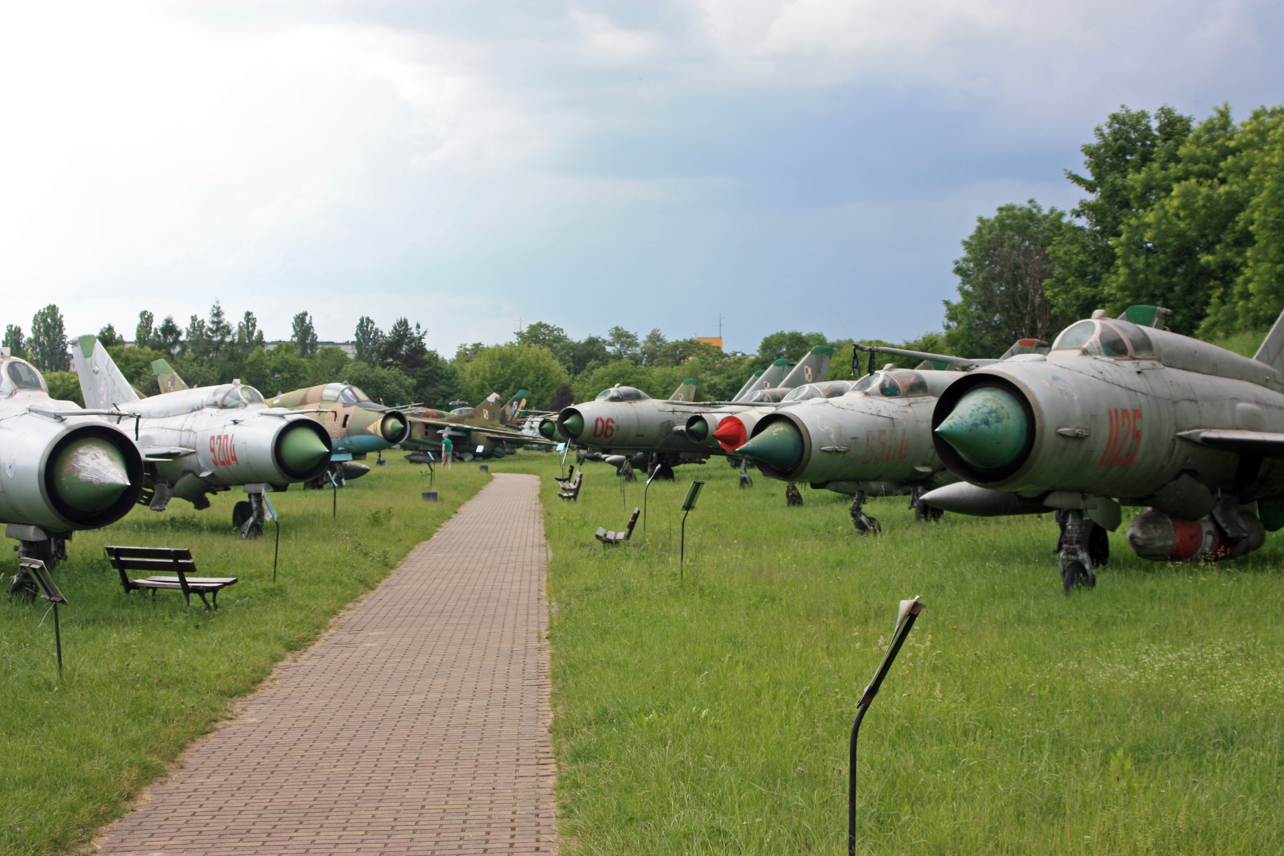 "MiG Avenue" at the Polish Aviation Museum in Krakow